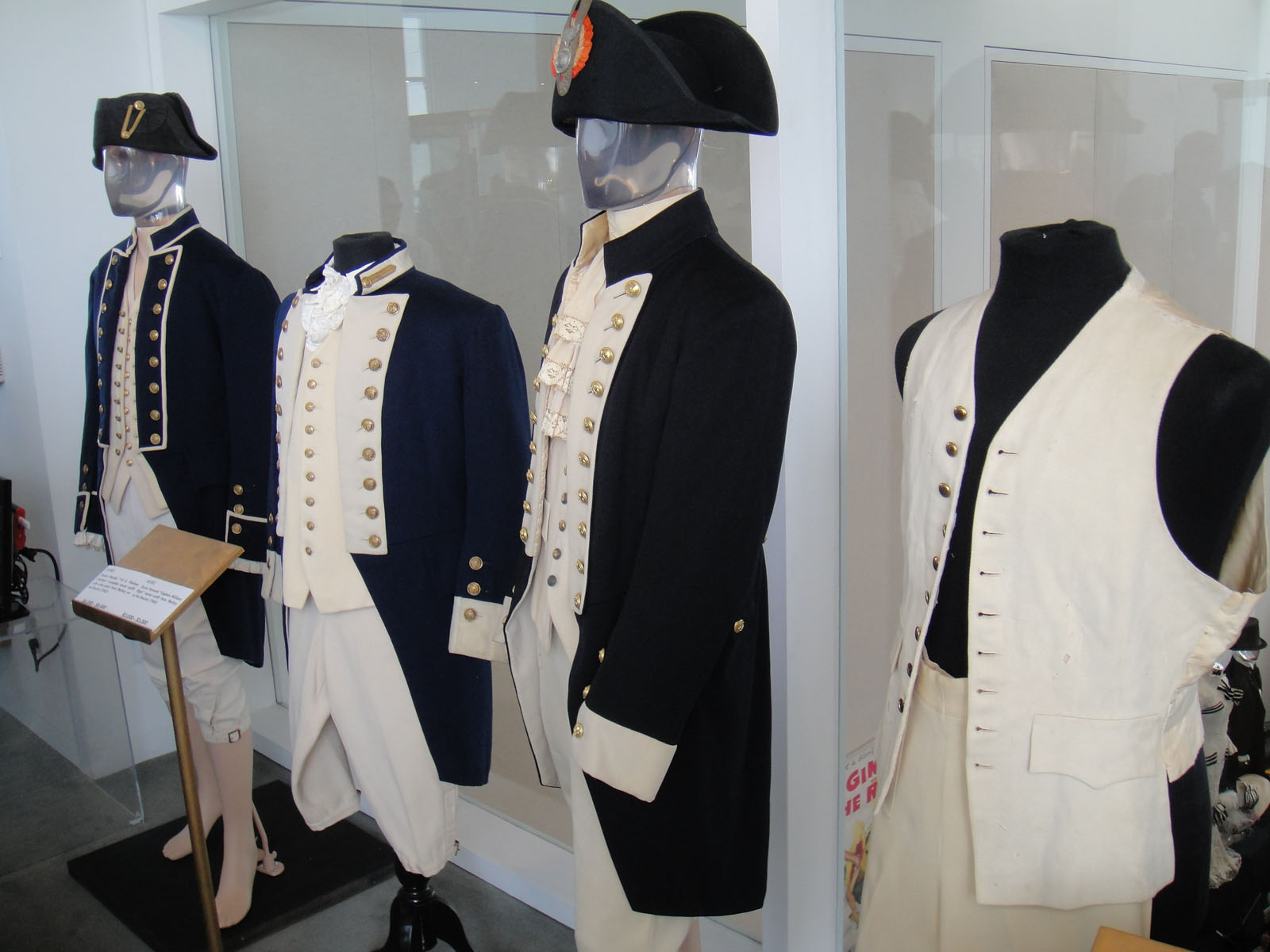 Marlon Brando, Trevor Howard, Charles Laughton, and Clark Gable costumes from "Mutiny on the Bounty" at the Debbie Reynolds Auction Breaks Up Historic Hollywood Collection (The Paley Center for Media in Beverly Hills, Los Angeles, CA, USA).